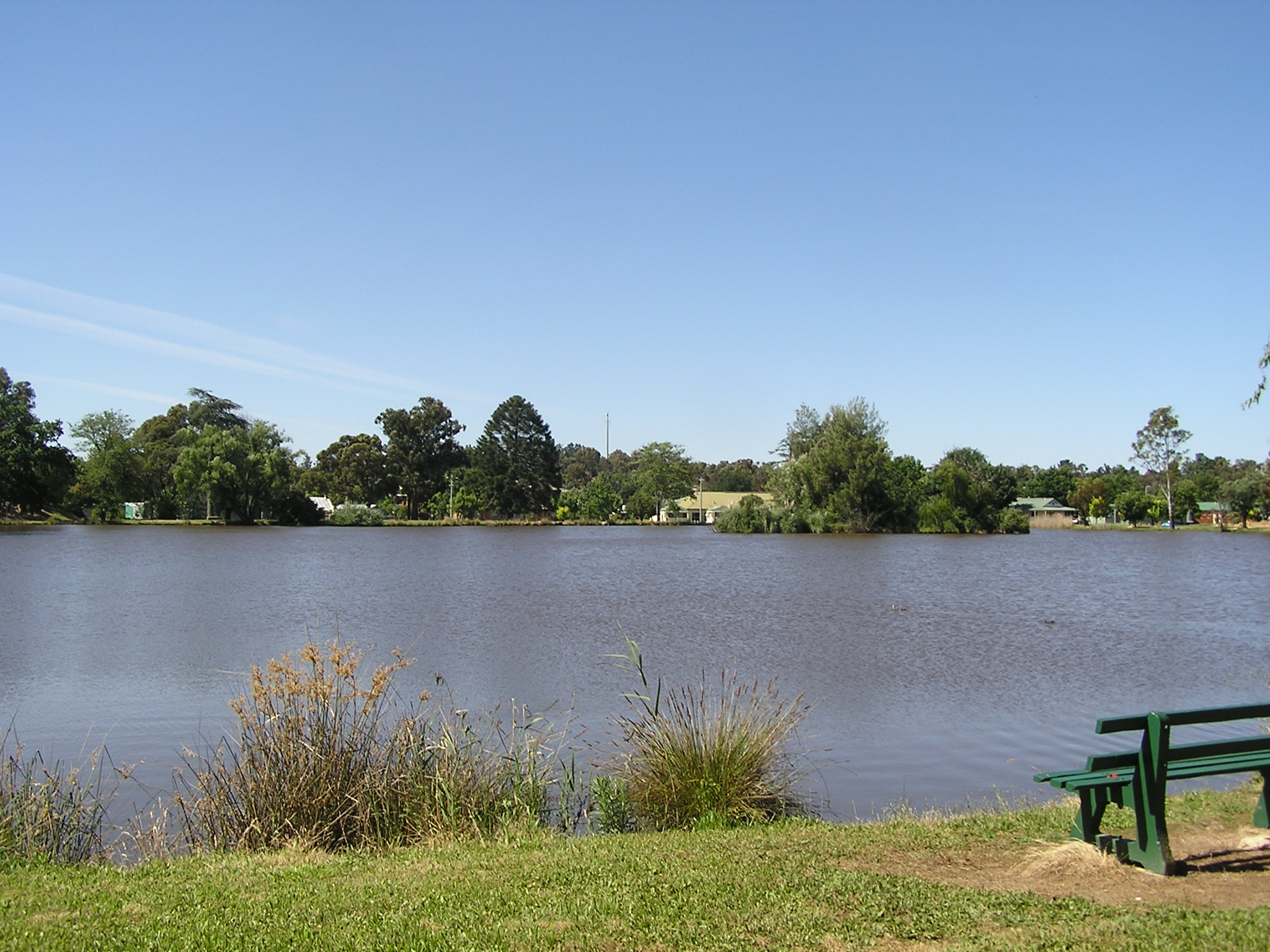 The view from Lake View House at Chiltern, Victoria, Australia home of the author Henry Handel Richardson. The lake was not there when Richardson lived there - it was a swamp.(ABC news story)